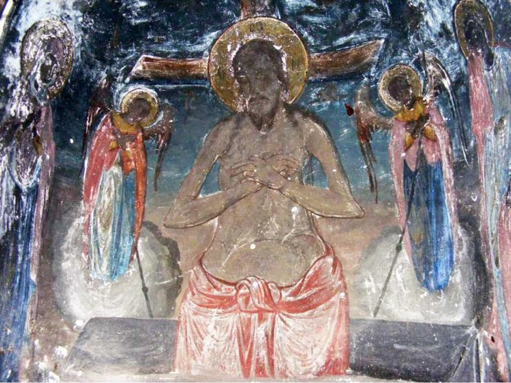 Saint Demetrius Church in Lakkos Fresco